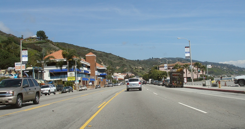 The Pacific Coast Highway—California State Route 1 (PCH) — in Malibu, Los Angeles County, Southern California. Malibu lacks a true Main Street and so most businesses are located along PCH instead.